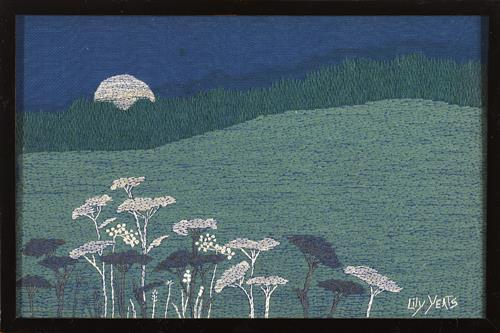 Landscape at Night by Lily Yeats died 1949 - guess 1920